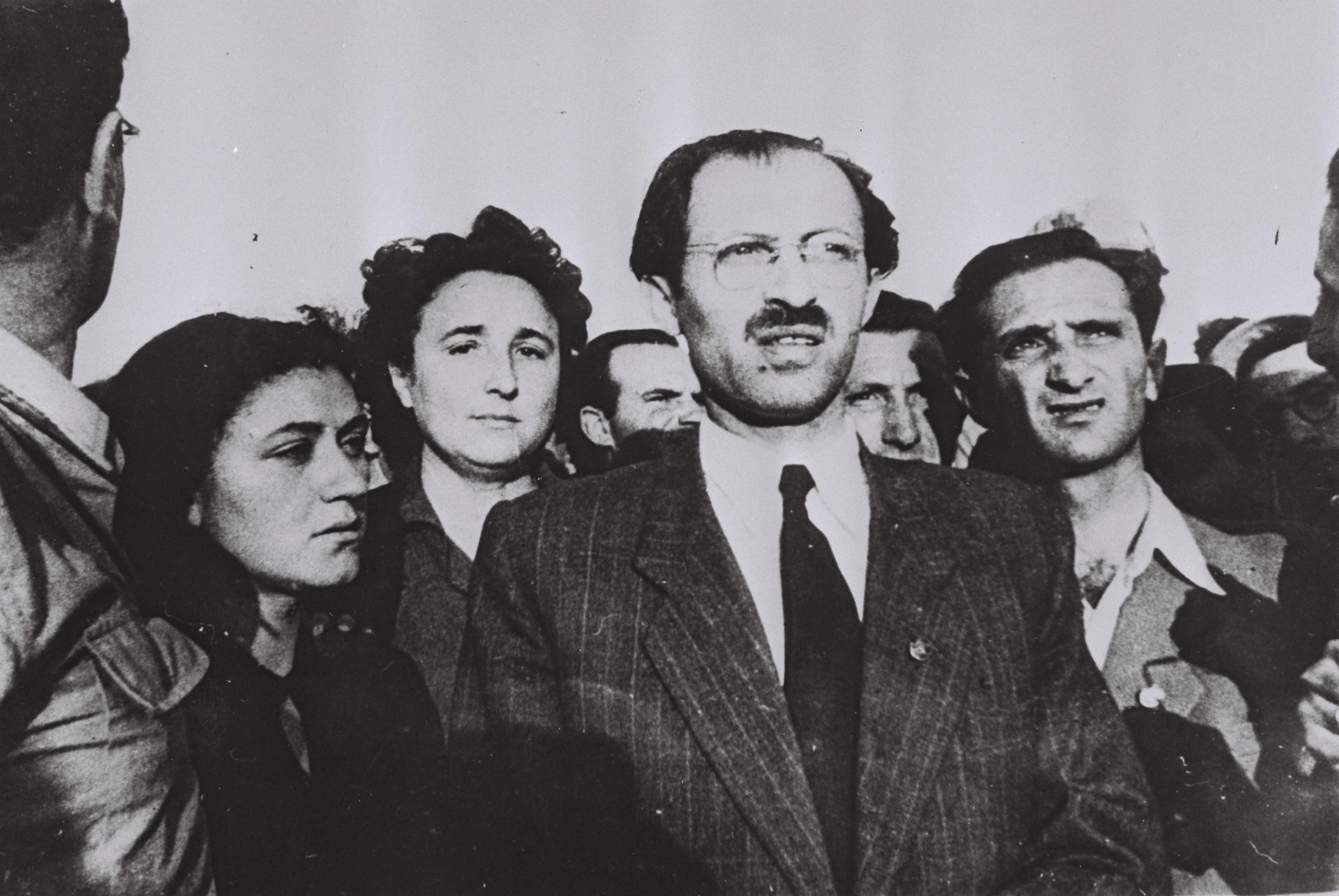 Menahem Begin with underground fighters on the "Altalena" anniversary on the Tel Aviv shore.